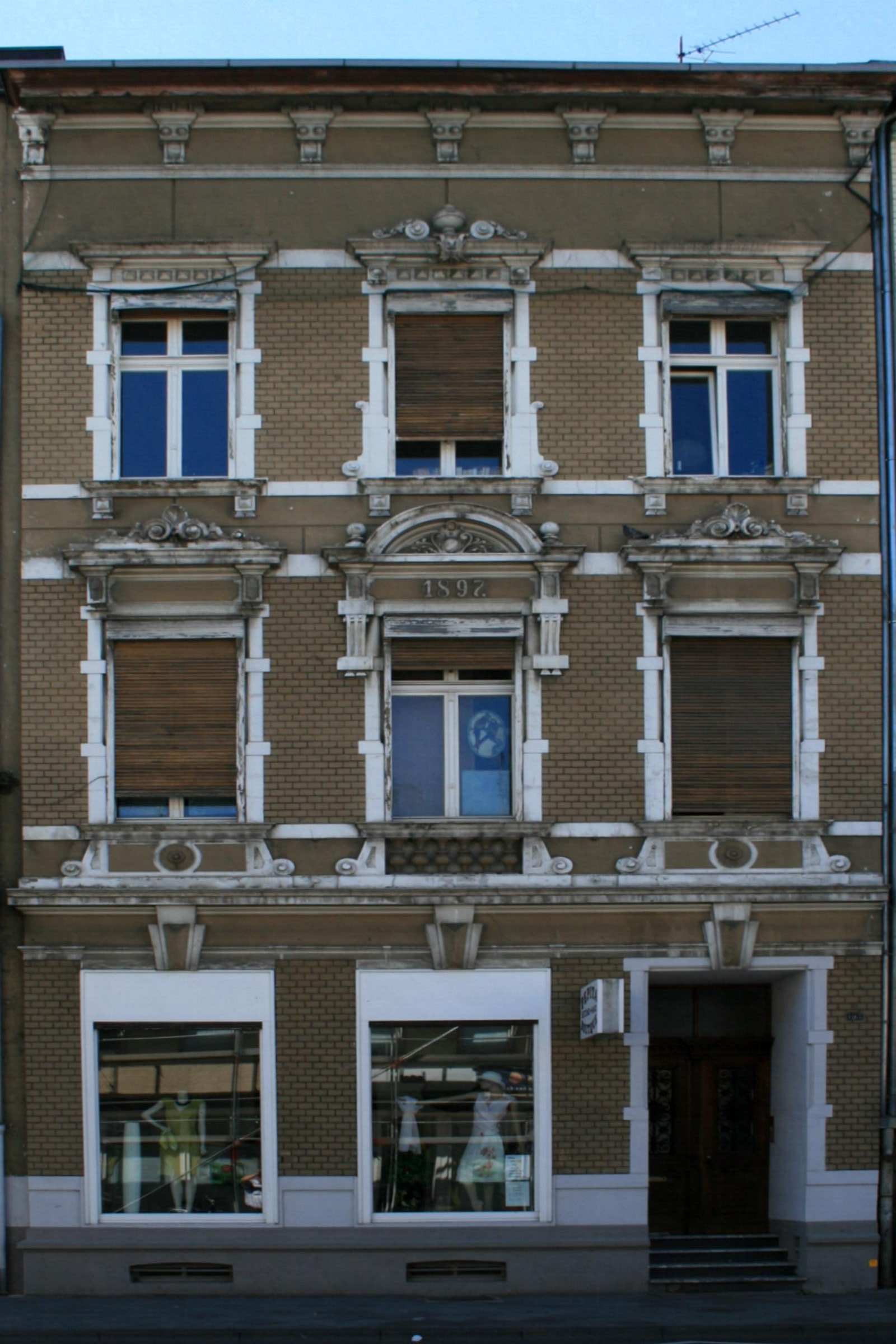 Cultural heritage monument No. E 016 in Mönchengladbach